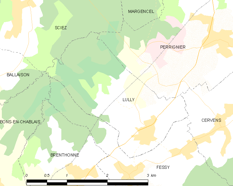 Map of French municipality Lully